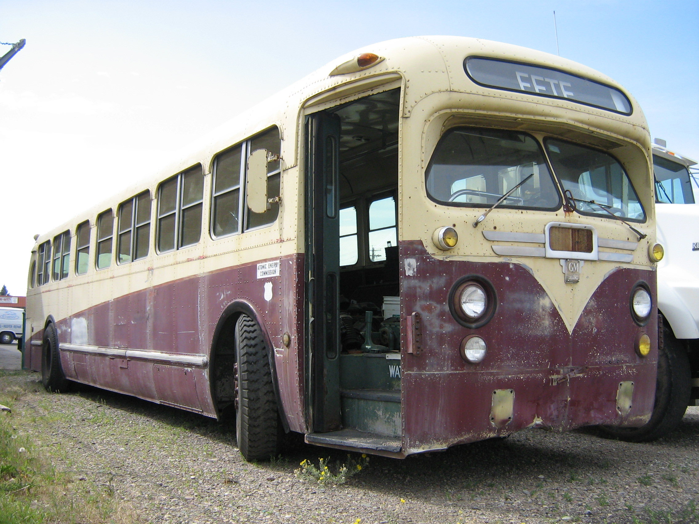 A General Motors bus being used as a storage shed for a heavy duty diesel shop. It has Atomic Energy Commission decals next to the door.